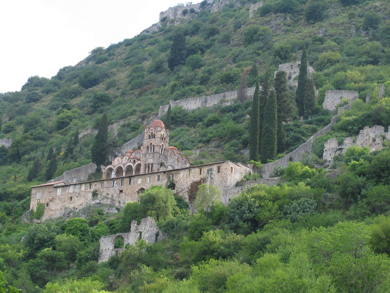 Monastery of Pantanassa in MystrasIMG_0275